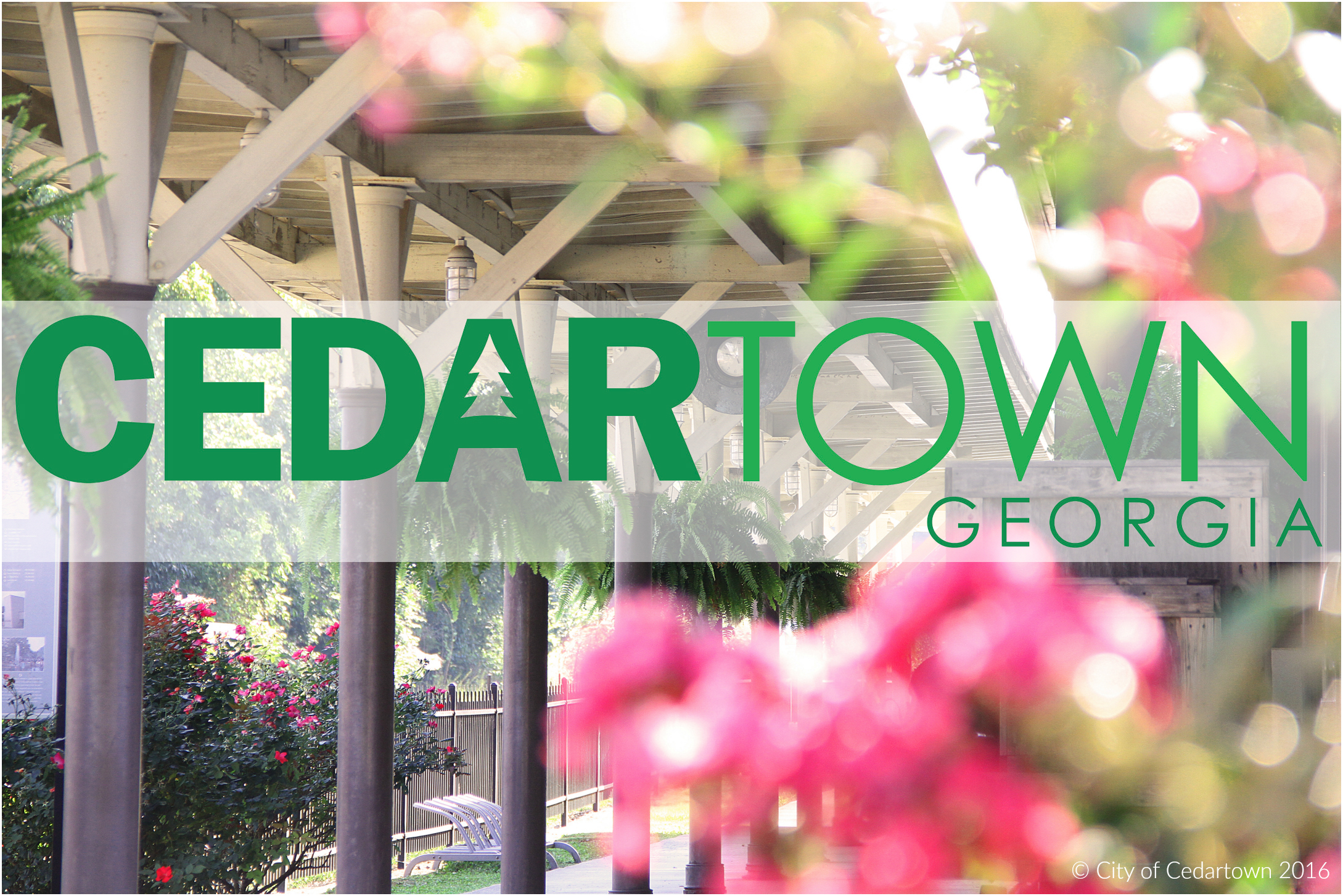 The Cedartown Depot and Welcome Center. The Depot serves as one of the trailheads for the Silver Comet Trail.